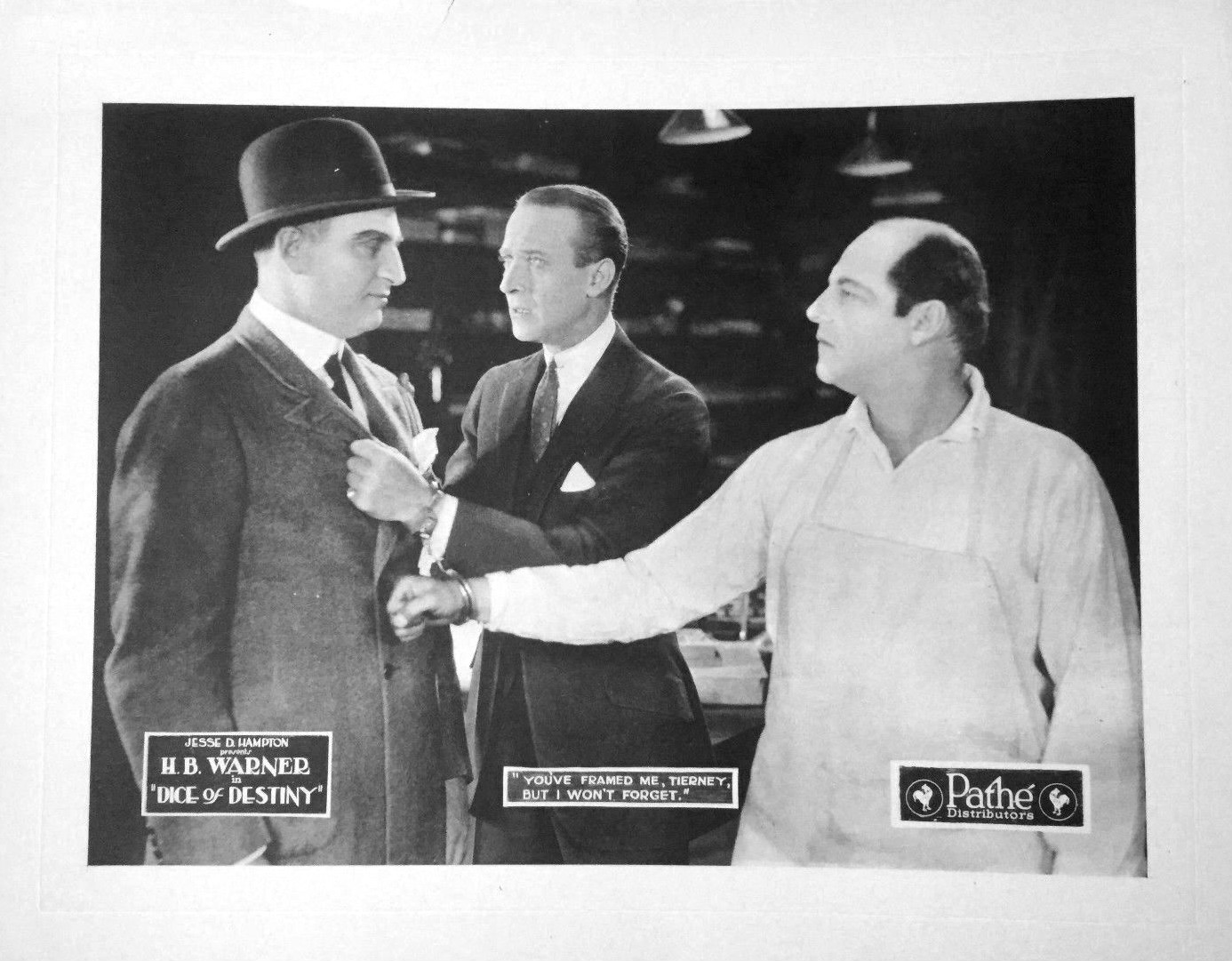 Lobby card for the American drama film Dice of Destiny (1920).